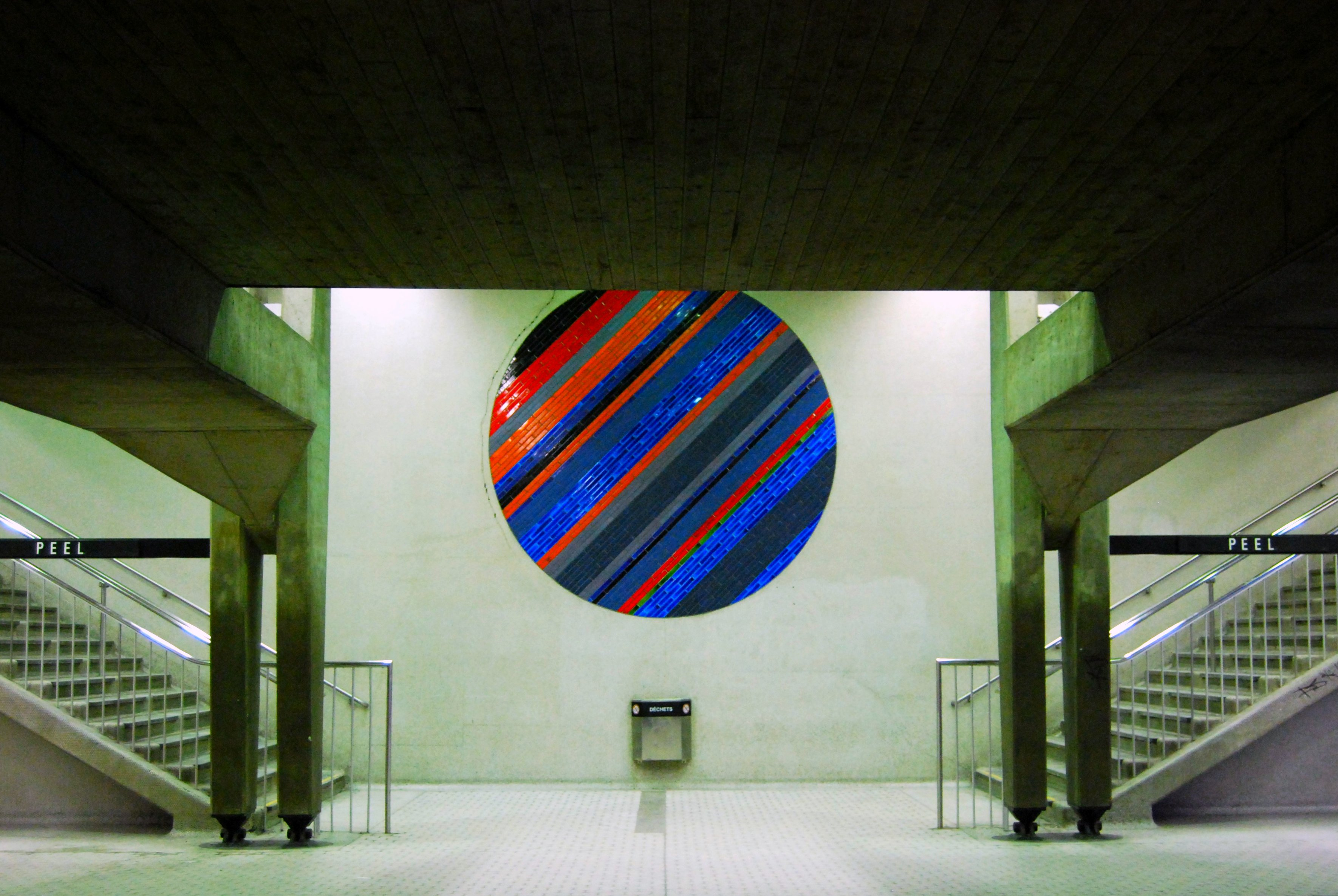 Ceramic Circle by Jean-Paul Mousseau in Montreal, Canada.